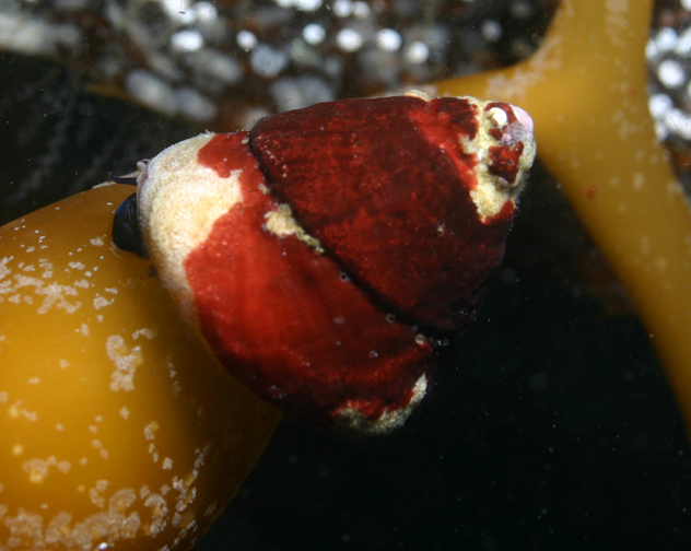 The brown turban snail Tegula brunnea (Philippi, 1848) (synonym: Chlorostoma brunnea) crawling on a pneumatocyst of the giant kelp Macrocystis pyrifera.